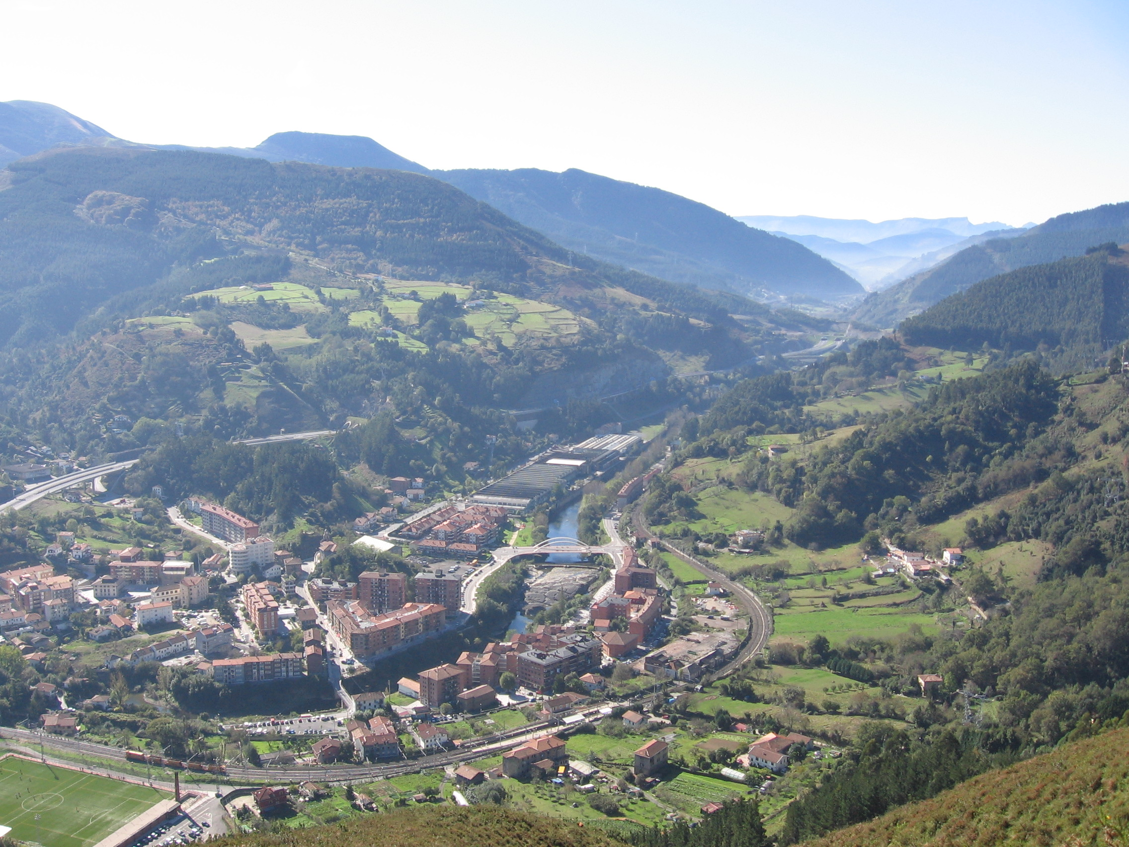 Alonsotegi, Bizkaia, Spain